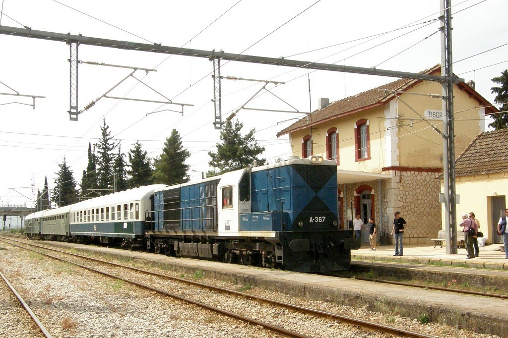 Preserved Alsthom diesel locomotive A-367 of Hellenic Railways Organization (OSE) at Tithorea Station, Greece, with 7520 special train.